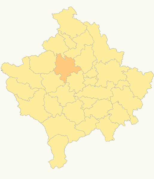 Skenderaj